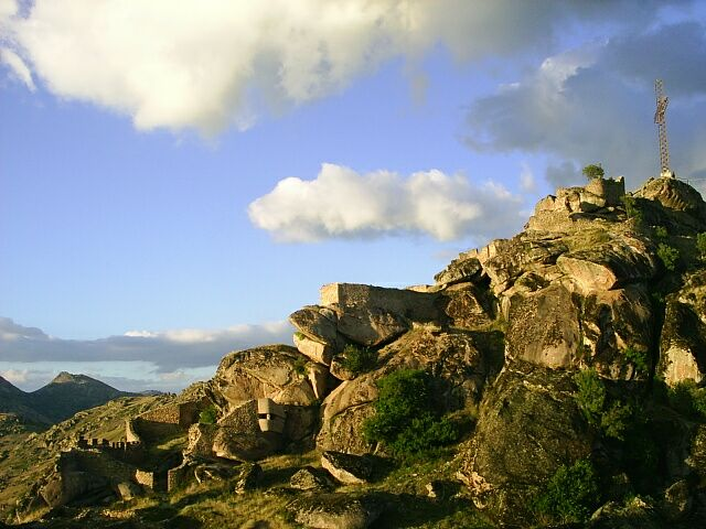 Marko's Towers fortress near Prilep, Republic of Macedonia